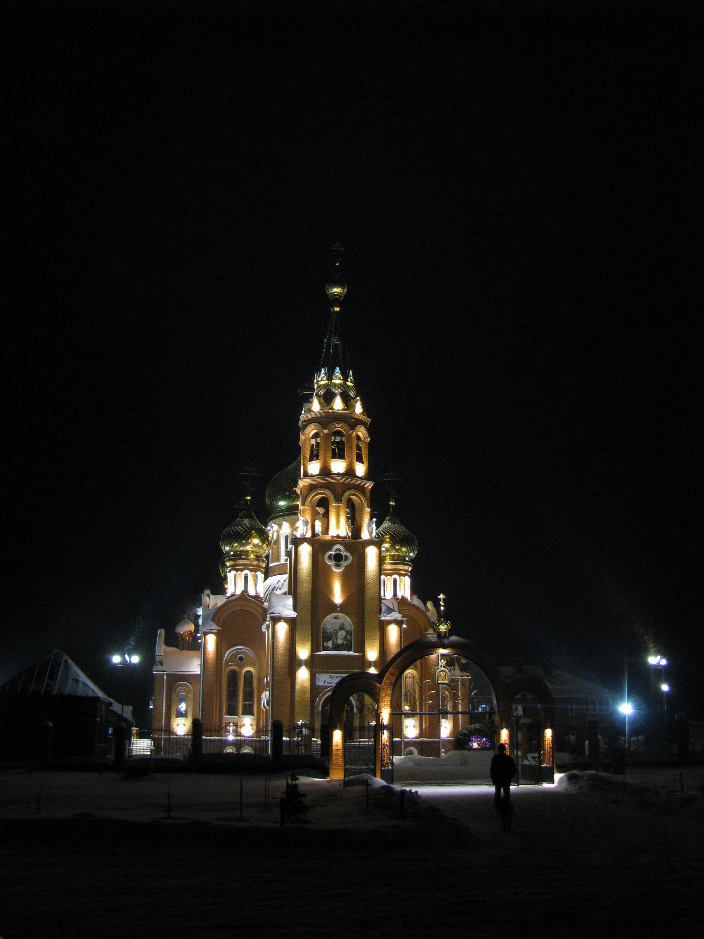 Church of Saint George, Chaikovsky, Perm krai, Russia